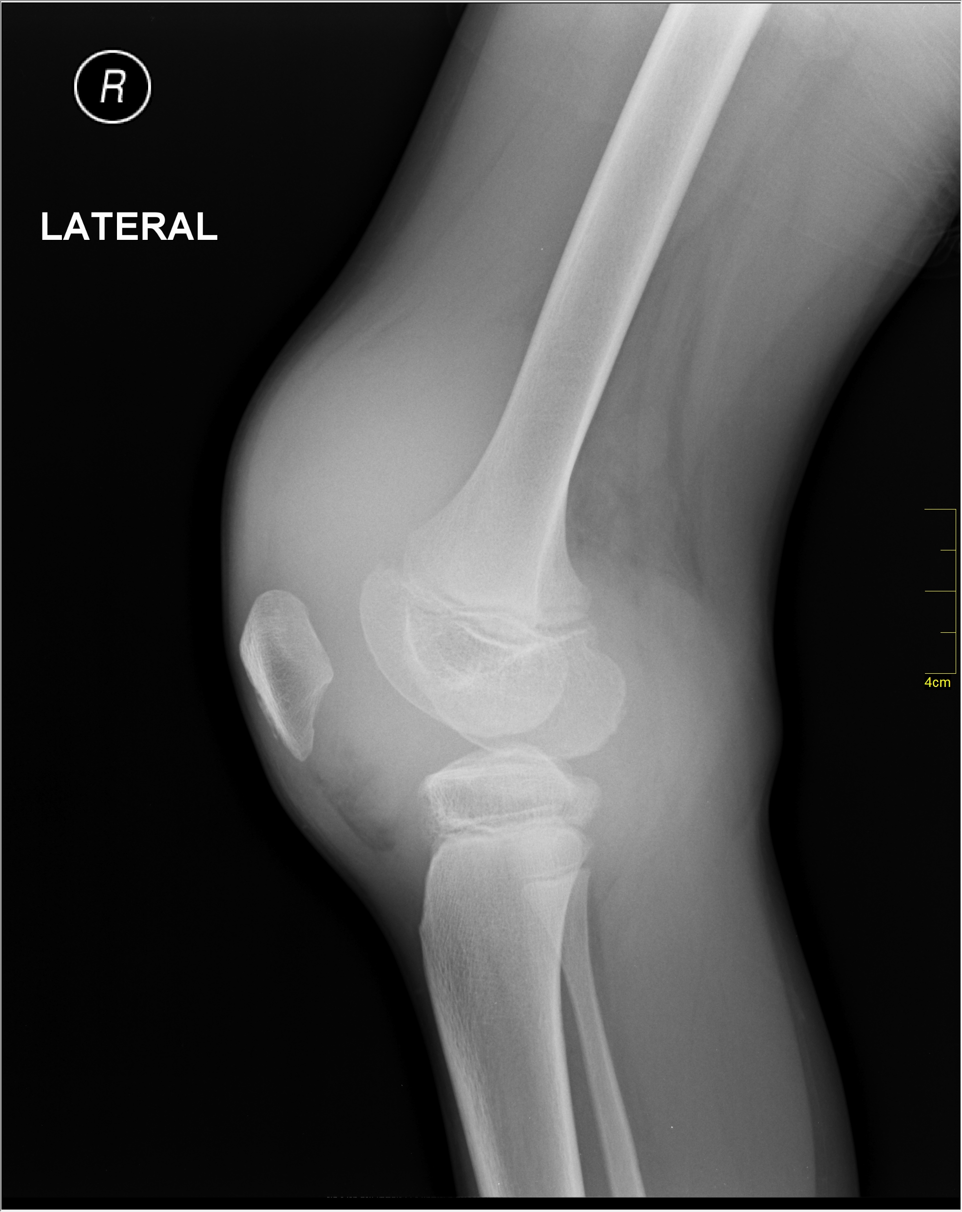 Hemarthrosis Medical X-rays.